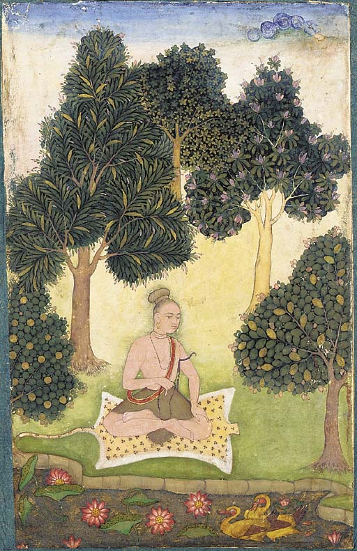 A yogi seated in a garden, North Indian or Deccani miniature painting, c.1620-40 (downloaded Sept 2003) "KAMOD RAGINI. Northern India or Deccan, circa 1620-1640. From a Ragamala series, a young yogi seated on a leopard skin in a landscape with flowering trees in the background, mounted on card with blue and yellow margins. Miniature 7 5/8 x 4 7/8in. (19.4 x 12.4cm.). Provenance Sundaram, Delhi, 1967."